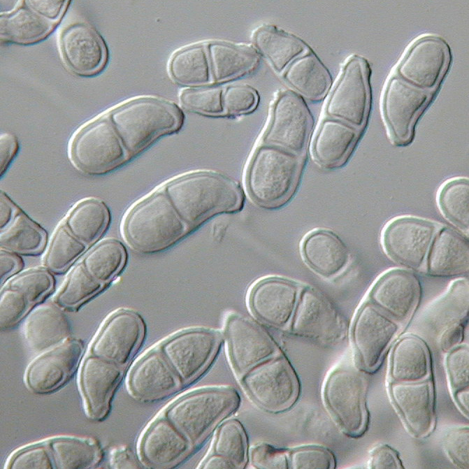 Conidia of Trichothecium roseum in Nomarski Differential Interference Contrast microscopy